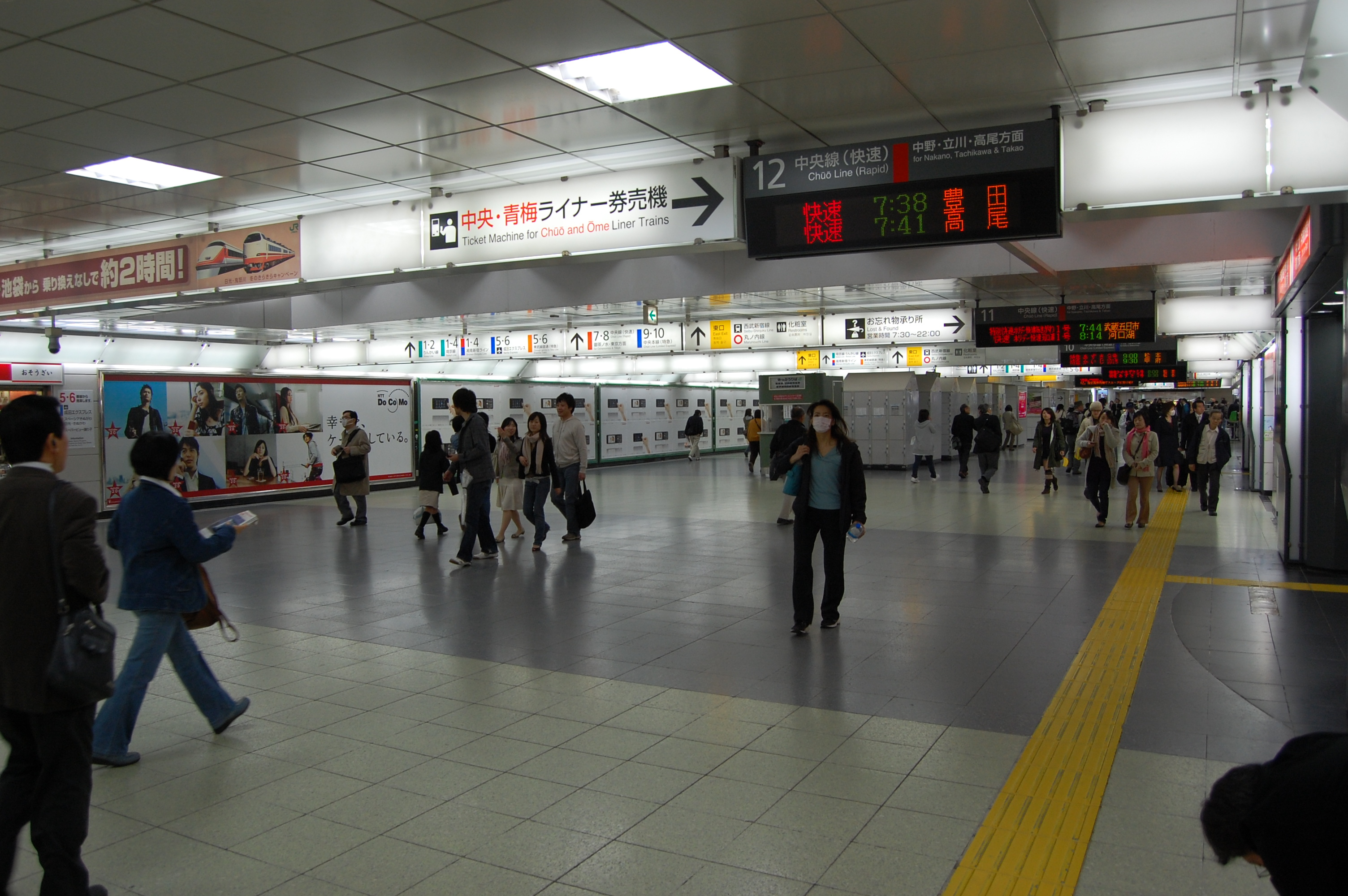 Underground concourse of Shinjuku Station in Tokyo